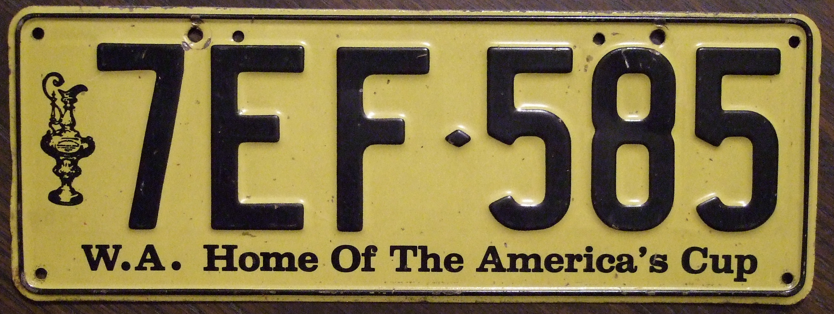 License plate issued in Western Australia when they won the America's Cup in 1984.